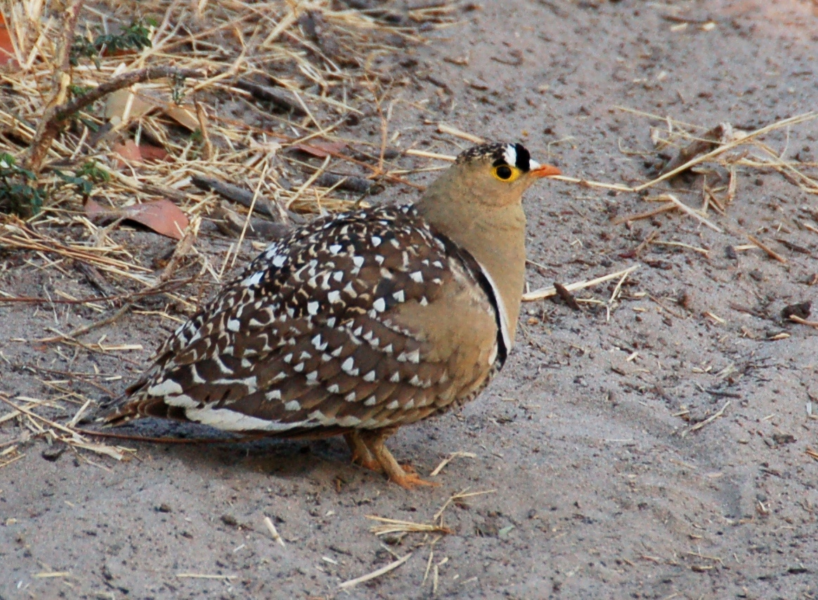 Double-banded Sandgrouse (Botswana)